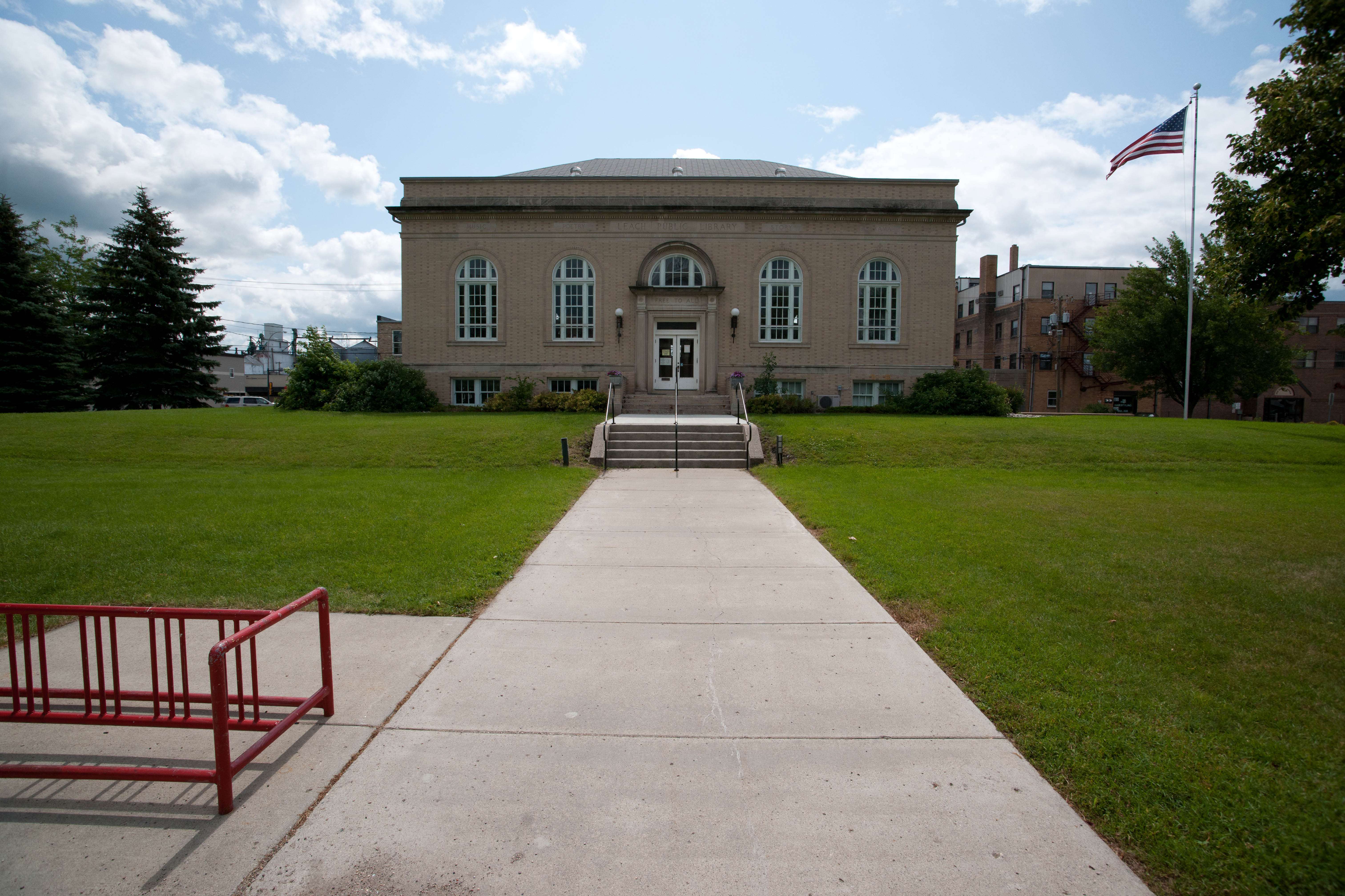 Leach Public Library in Wahpeton, North Dakota, listed on the National Register of Historic Places. From